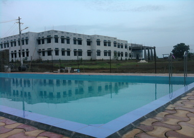 School Building